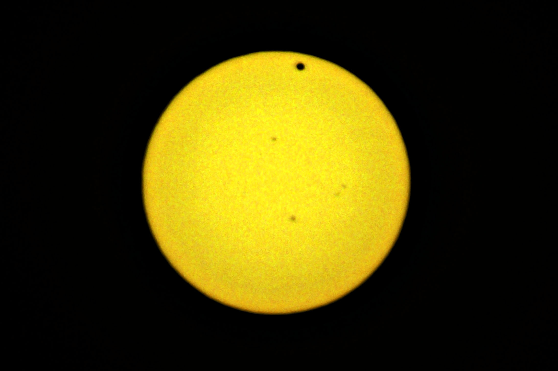 2012 transit of Venus across the Sun, 06:11 CEST. From Ragusa, Sicily.